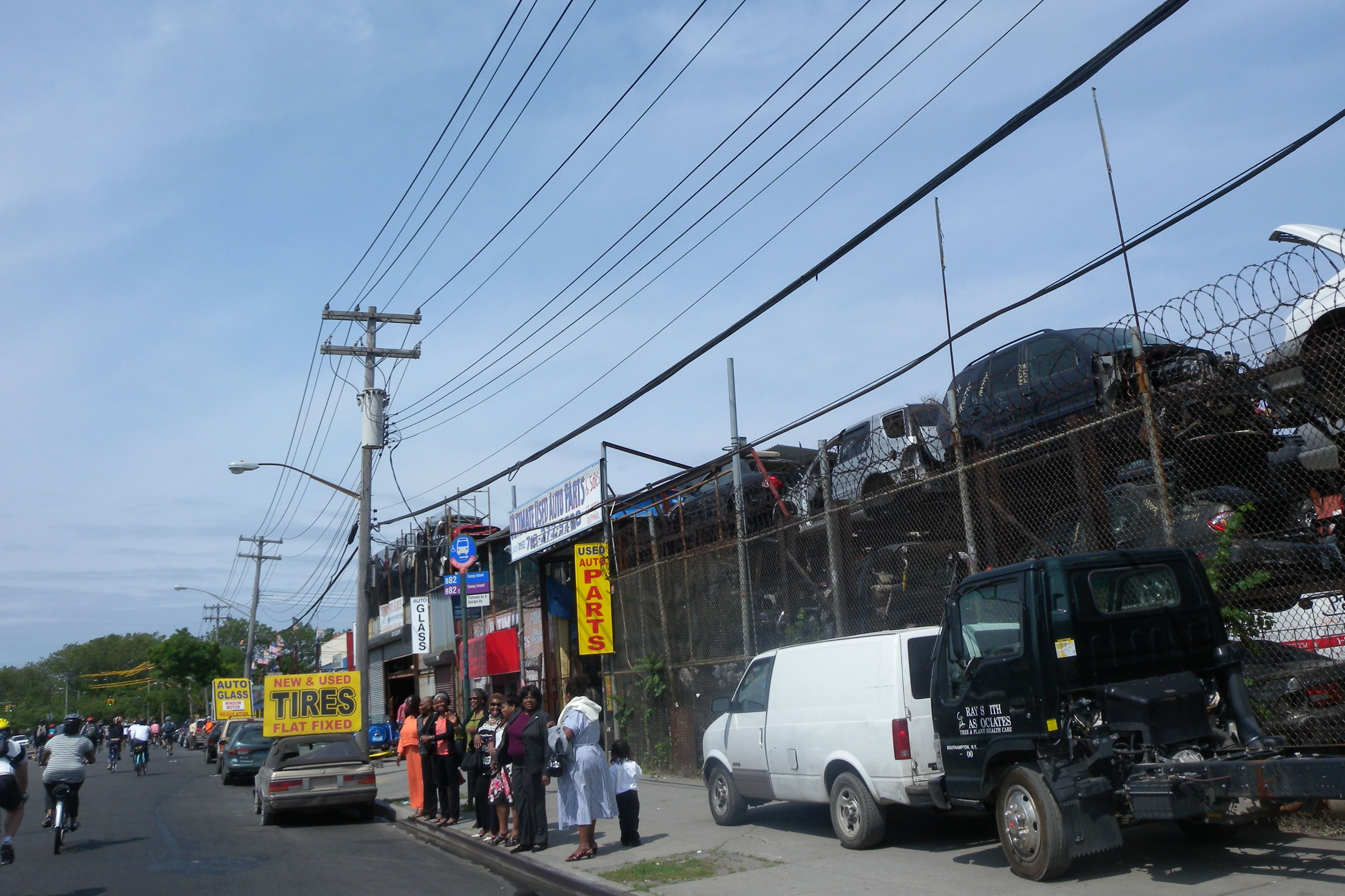 Looking west from Georgia Avenue along Flatlands Avenue at auto graveyard on a sunny morning.